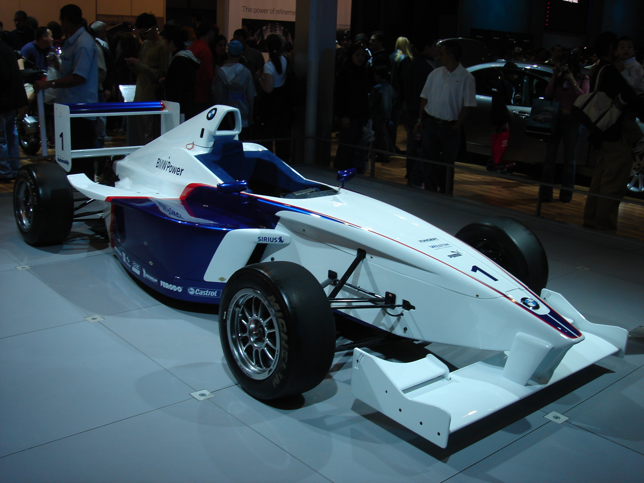 BMW Formula BMW USA Championship